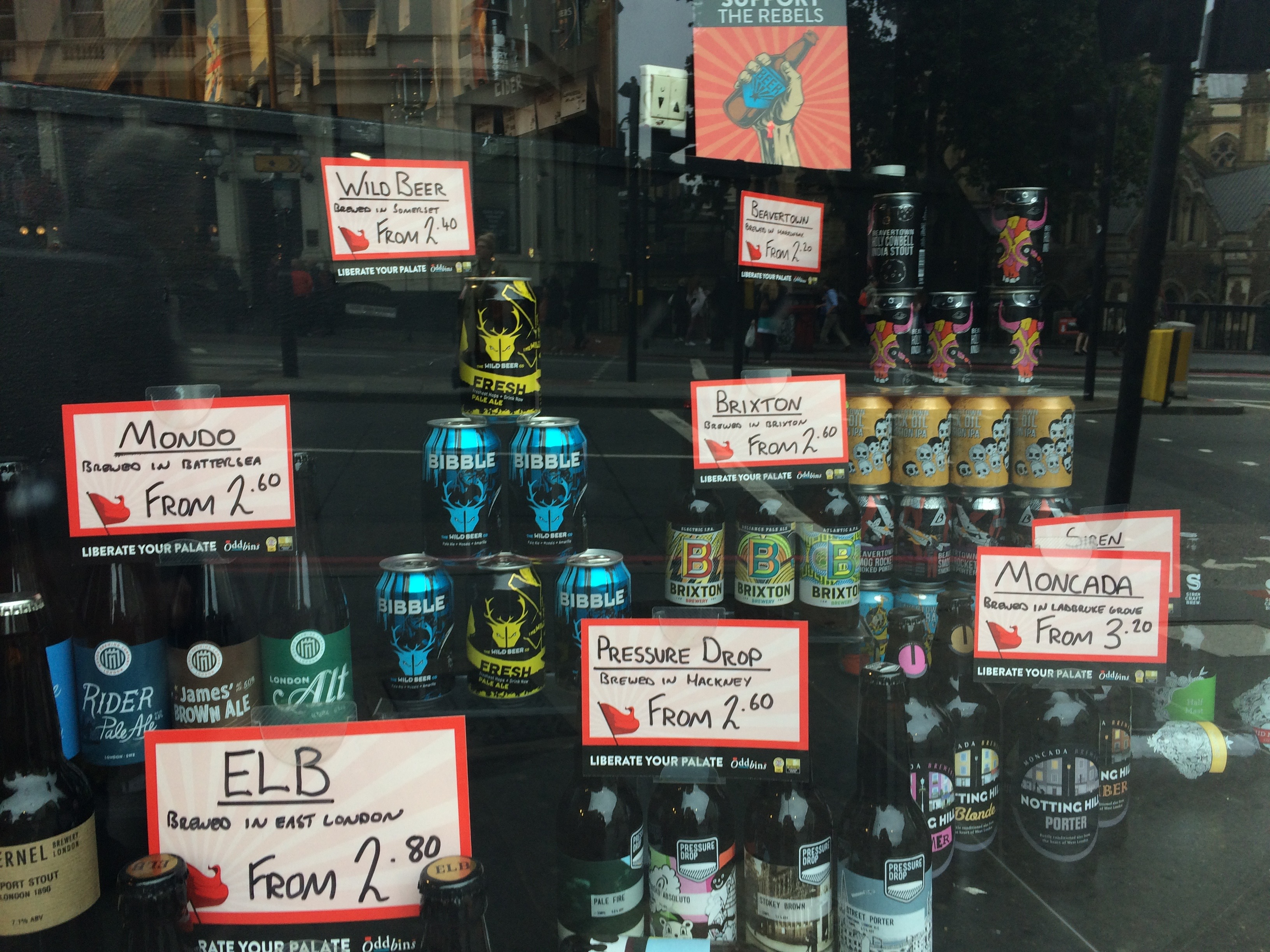 Craft beer from local breweries in a shop window in London